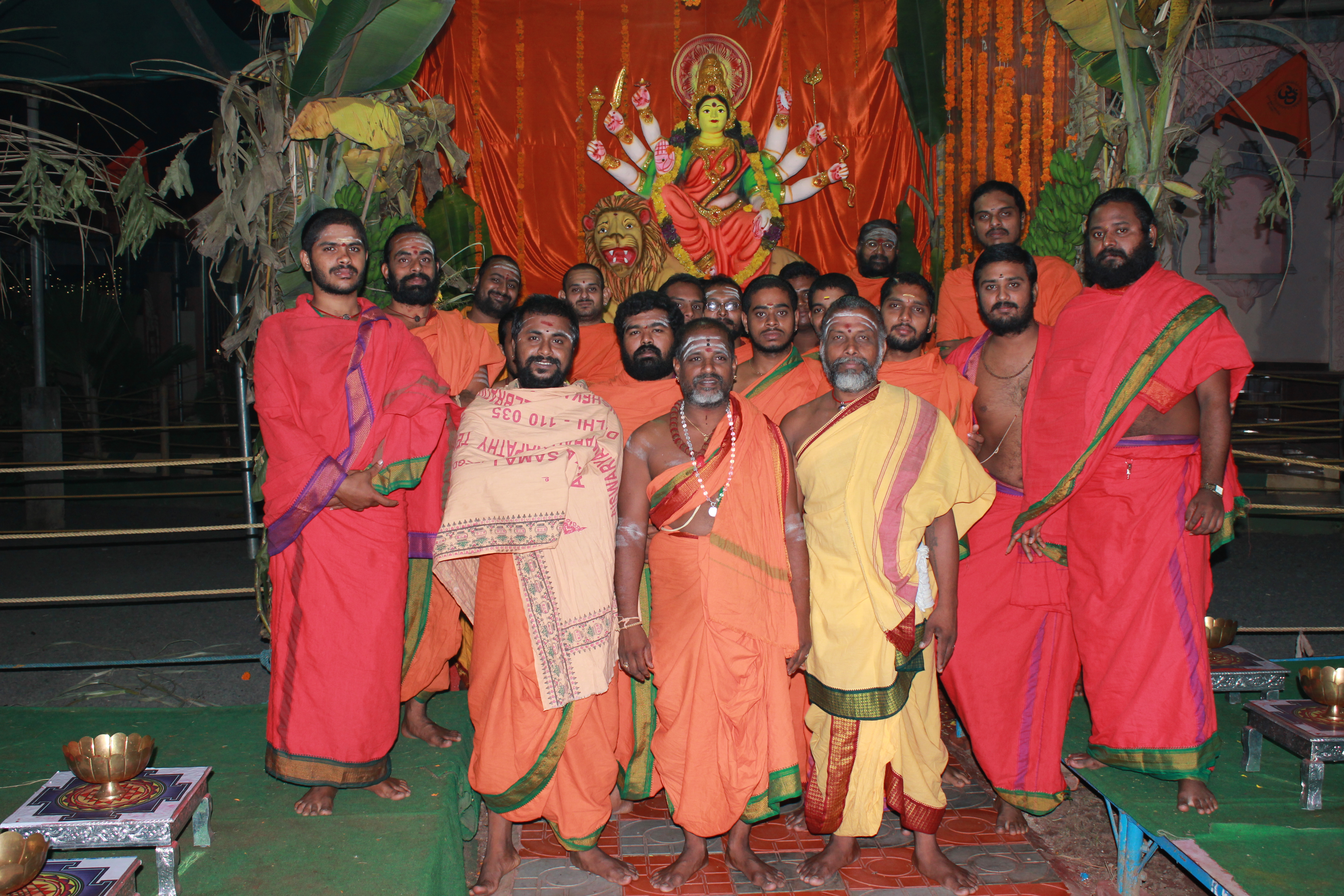 Veda pandits from tamilnadu at ahortram